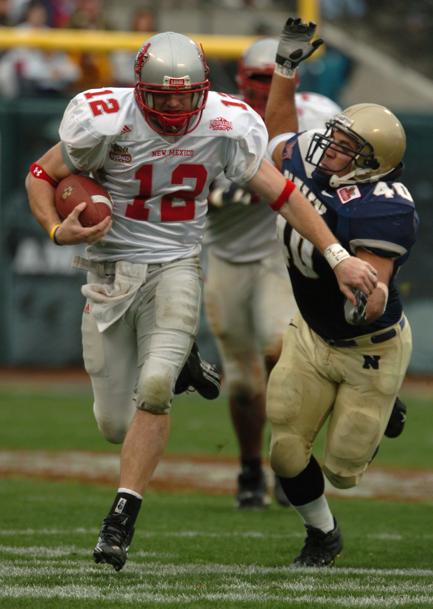 U.S. Naval Academy Midshipman line backer David Mahoney attempts to tackle New Mexico quarterback Kole McKamey.